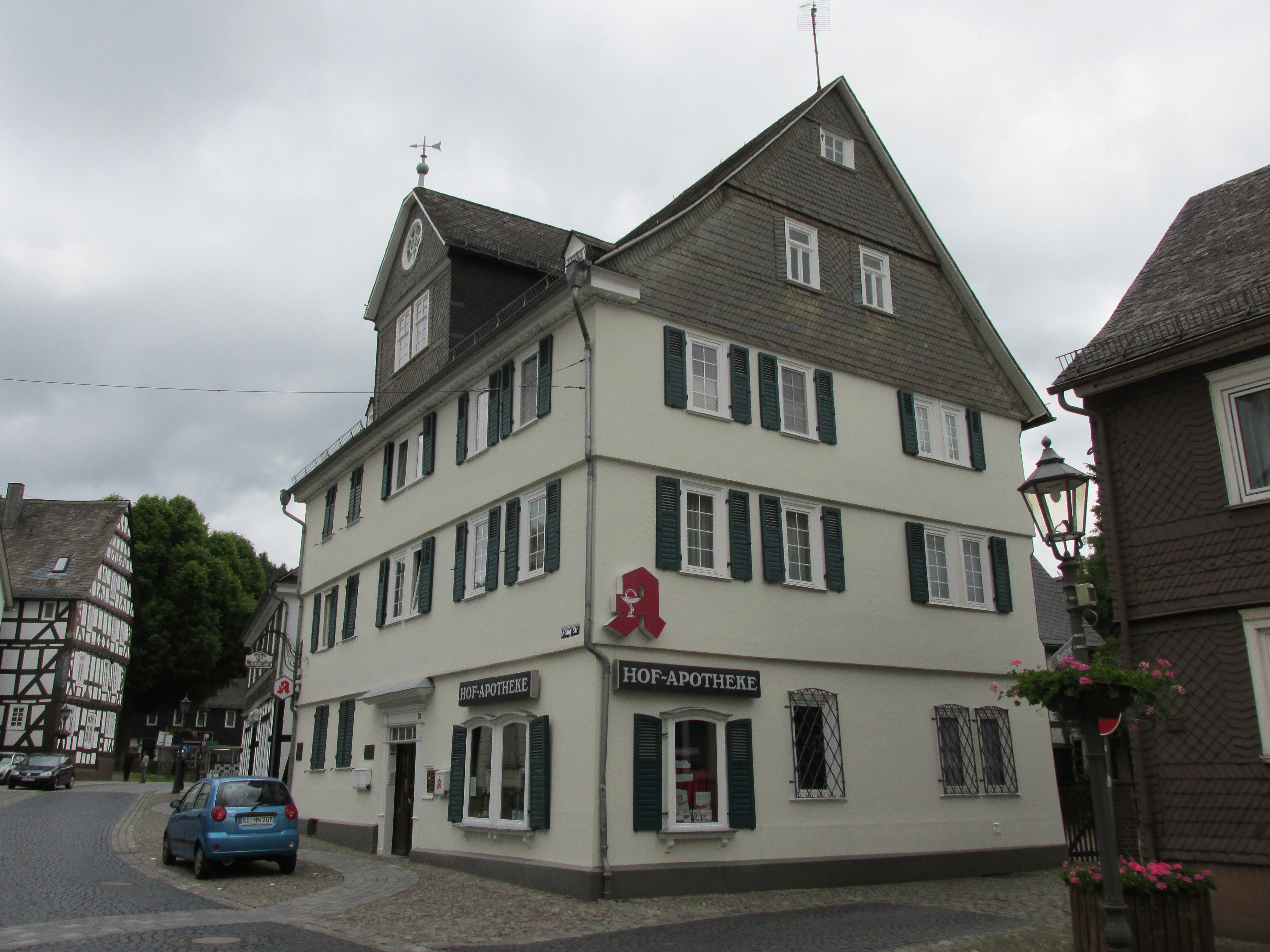 Königstraße 48, Bad Laasphe, Germany